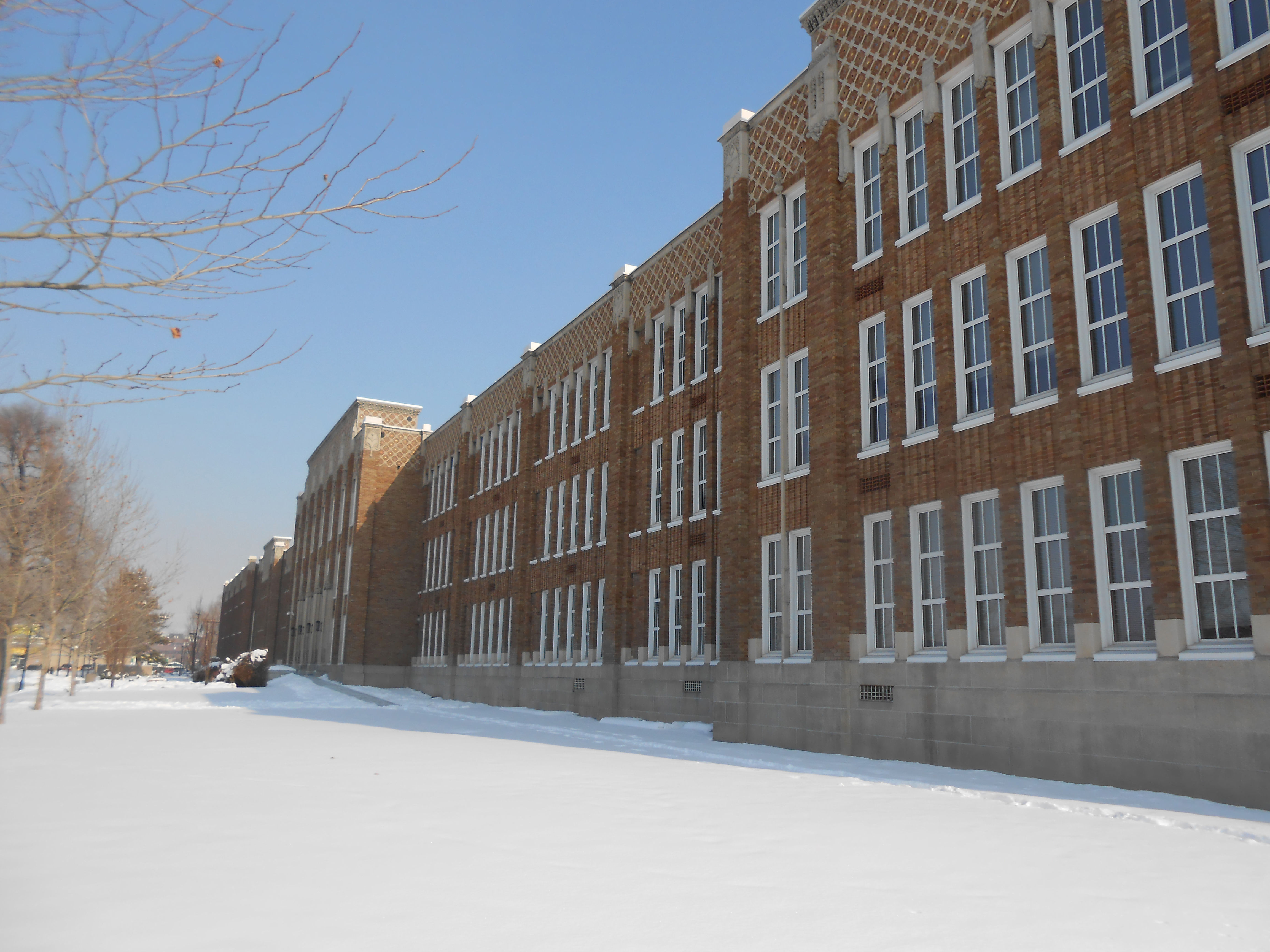 front of South High School (Salt Lake City)